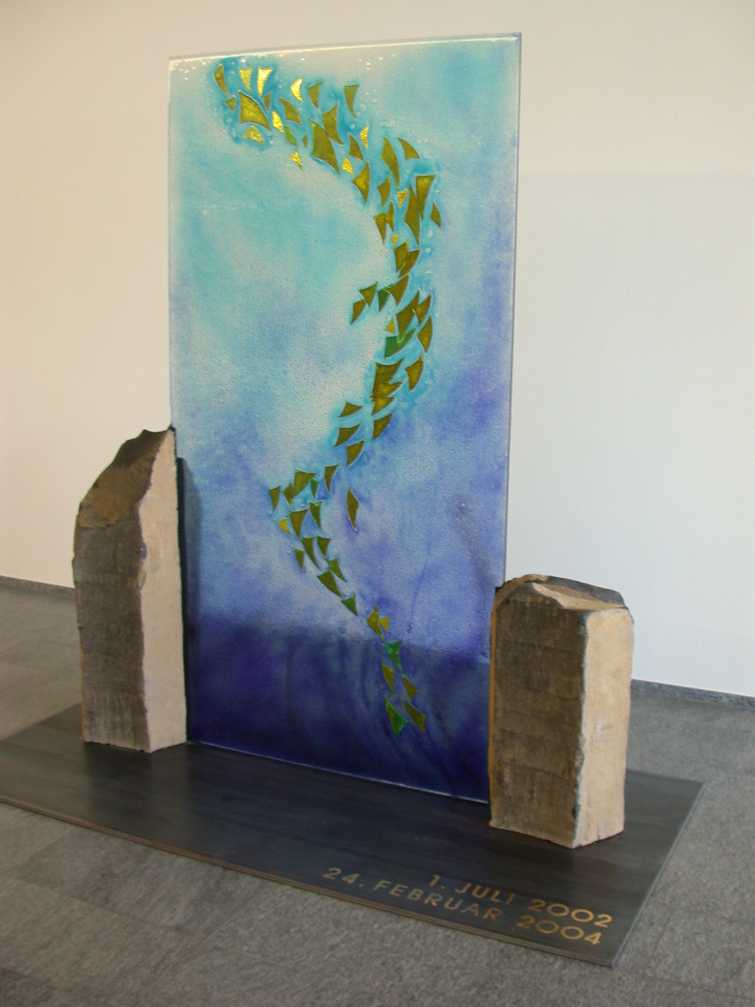 Skyguide Memorial to the Bashkirian Airlines Flight 2937 incident and the murder of Peter Nielsen in Dübendorf, Canton of Zürich, Switzerland